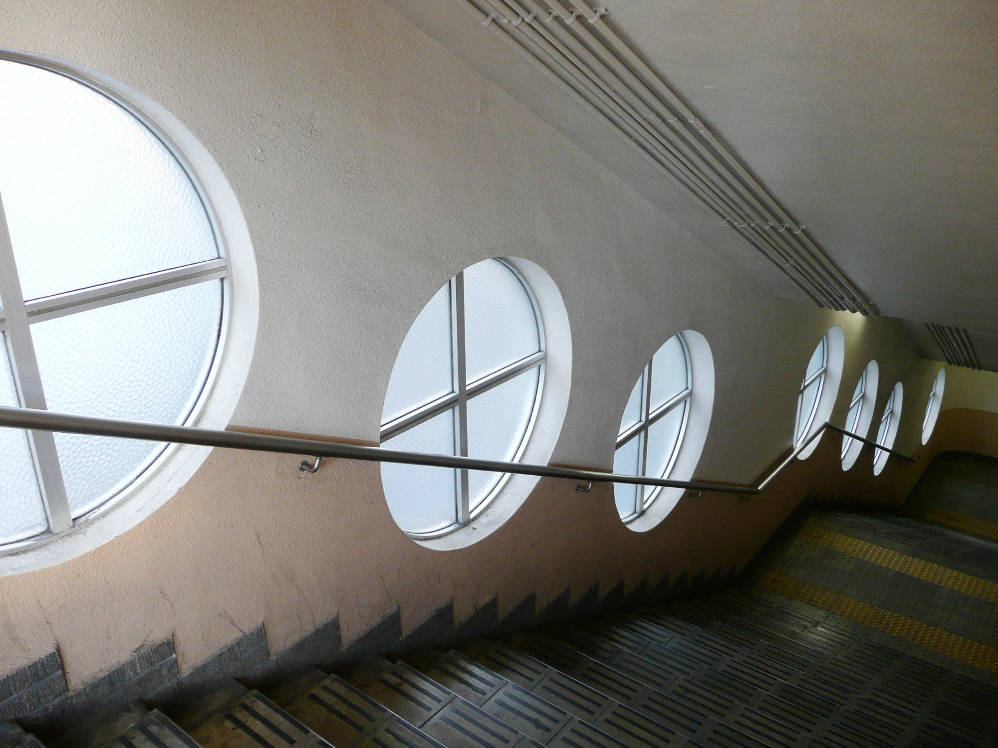 Hanshin Electric Railway,Main Line,Sumiyoshi Station window. /阪神本線住吉駅・構内階段の丸窓